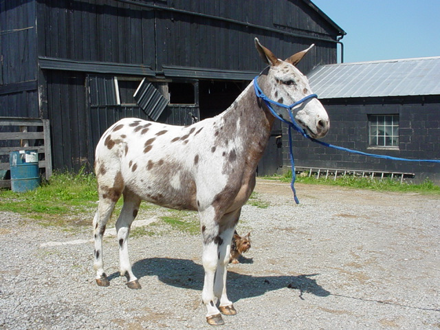 11 year old Leopard Appaloosa John Mule meu nome é thiago seus eguinos são muito bons ate